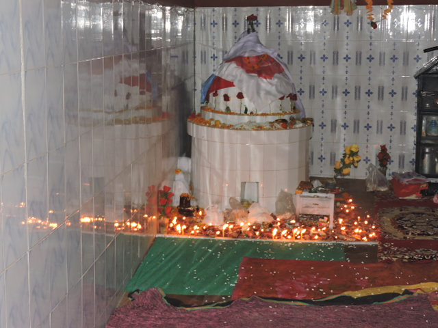 Worship on Nagar Kheda on Diwali festival in village Chilla, district Sahibzada Ajit Singh Nagar district,Punjab,India